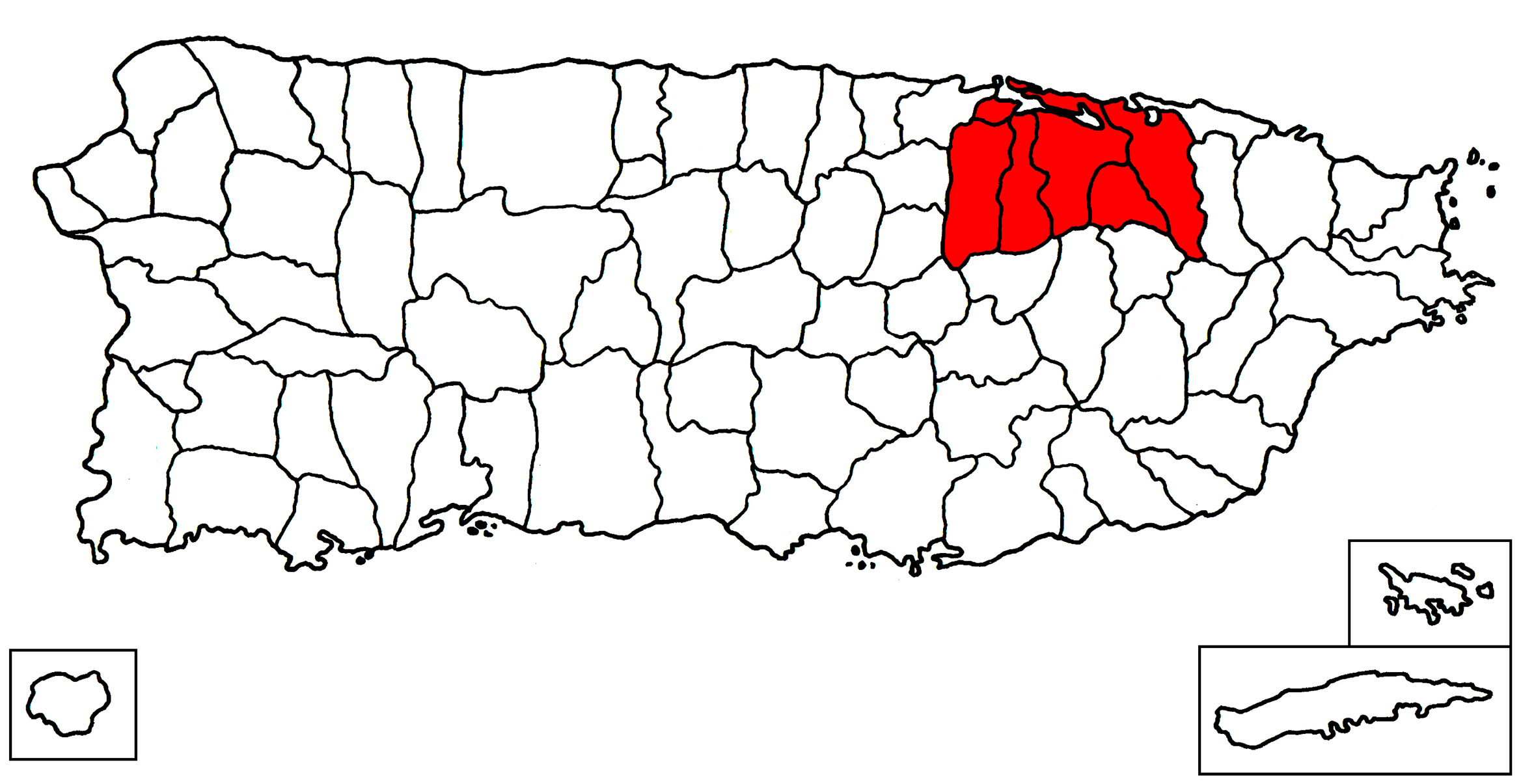 Locator map of the metropolitan area of San Juan, Puerto Rico.